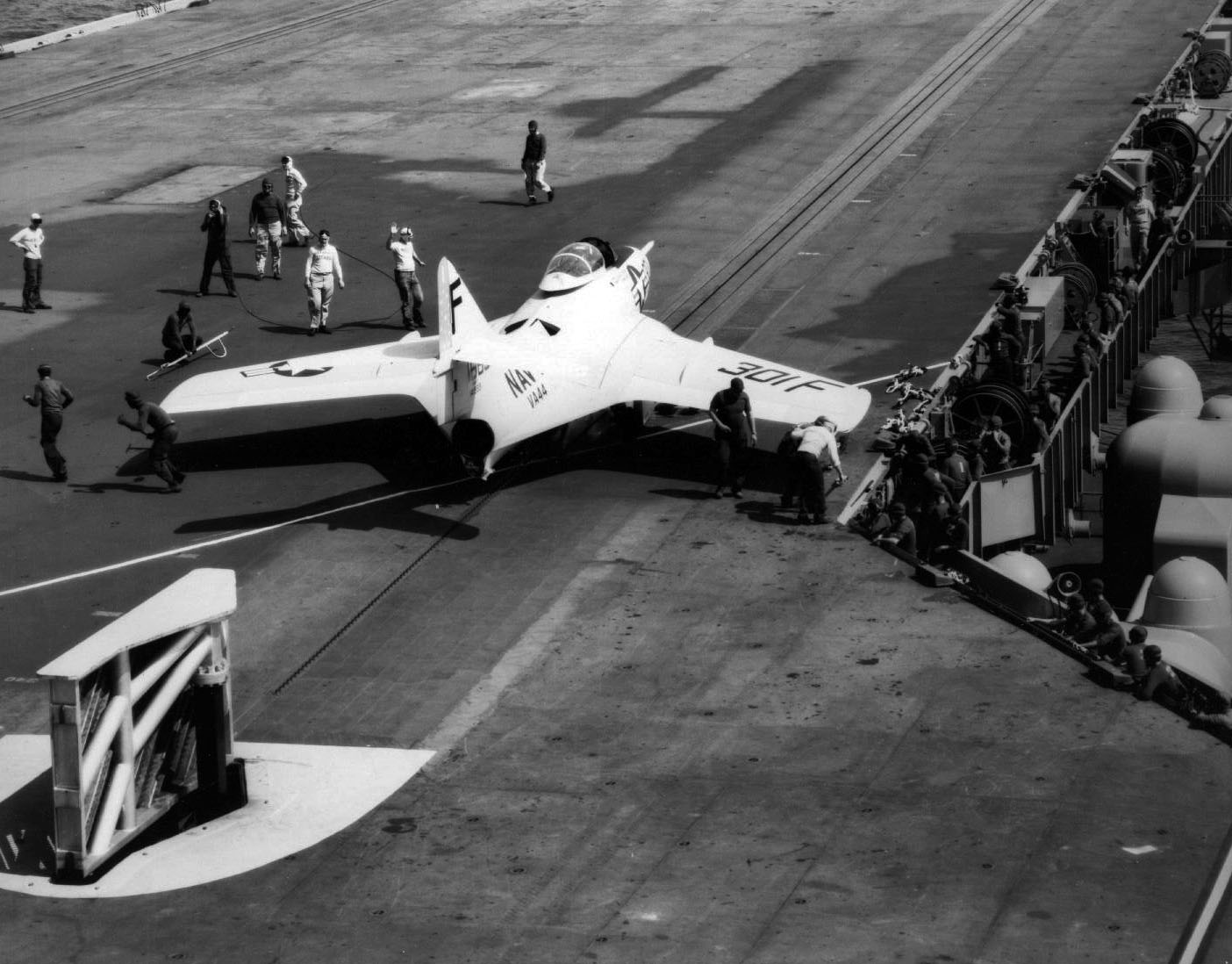 A U.S. Navy Grumman F9F-8 Cougar of Attack Squadron 44 (VA-44) "Hornets" pictured on the starboard bow catapult on board the aircraft carrier USS Saratoga (CVA-60) during the carrier's shakedown cruise in the Caribbean Sea. Note the jet blast deflector that instead of being raised from the flight deck is on a swivel device. VA-44 was assigned to Carrier Air Group 4 (CVG-4) aboard the Saratoga for her shakedown cruise from 18 August to 15 October 1956.